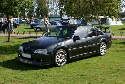 Opel Omega Evo 500.